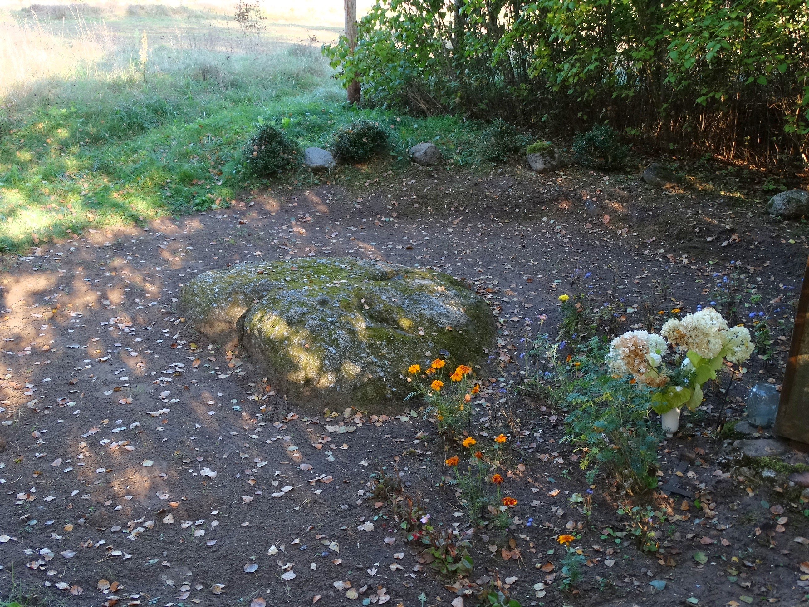 Mitkiškės Stone, Elektrėnai Municipality, Lithuania